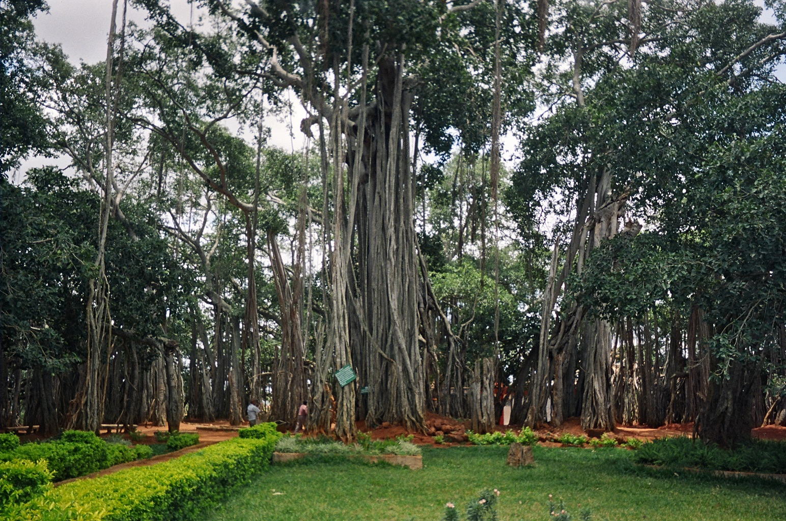 Doda Alada Mara (Giant Banyan Tree) in Ramohalli near Bangalore, Karnataka, India taken by BostonMA in August 2003. This giant Banyan tree is 400 years old and occupies 3 acres. It is located in the village of Ramohalli, approximately 28km from Bangalore.